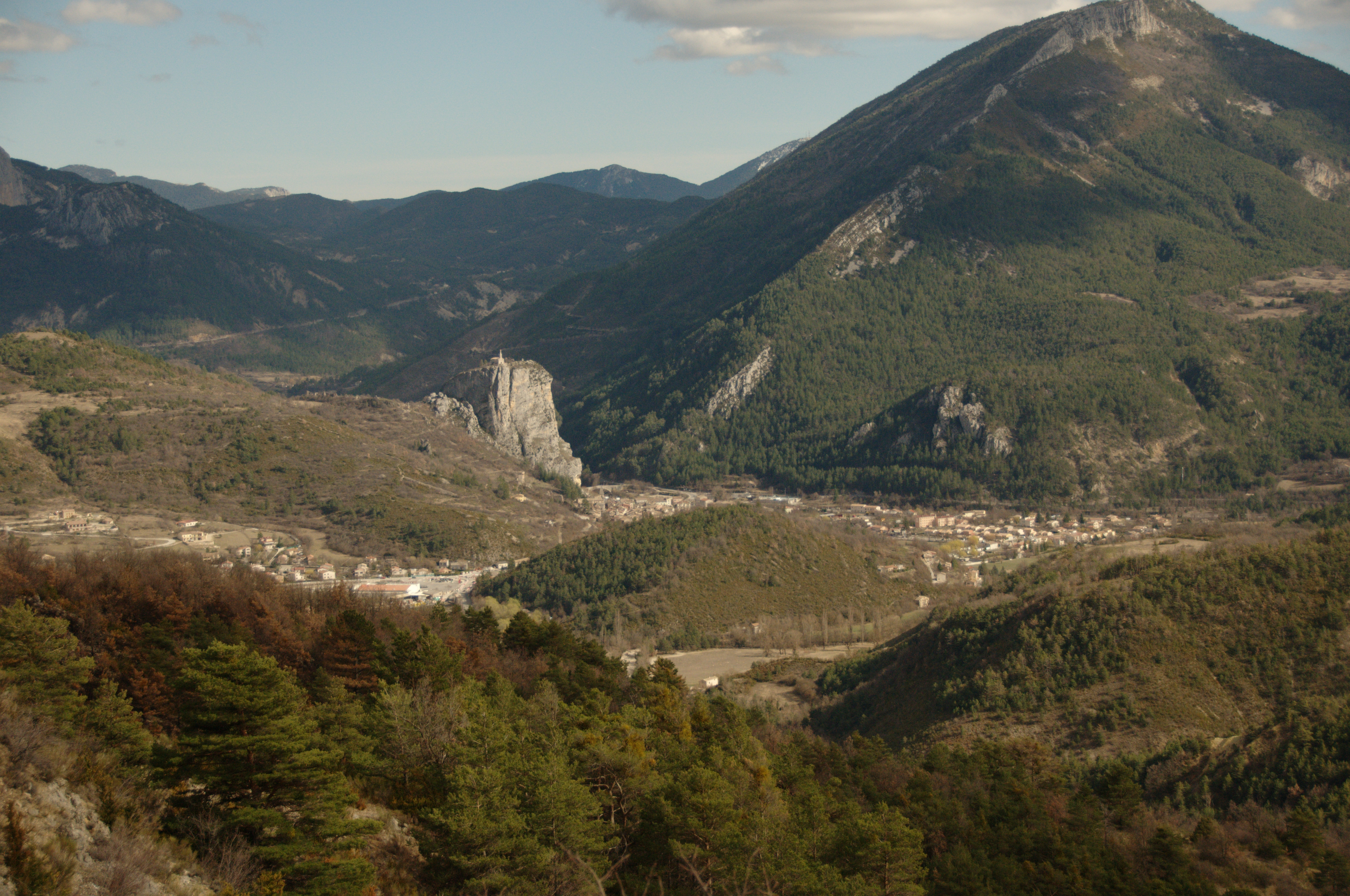 Castellane from far away, lage view